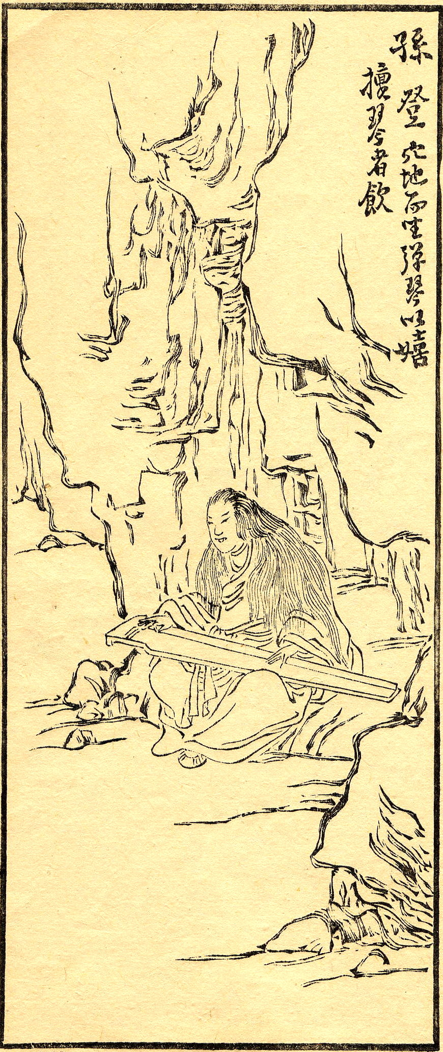 Sun Deng（Chinese:孫登）was a chinese hermit in the Three Kingdoms period.